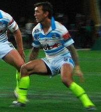 The Australian dual-code rugby player Mat Rogers during a rugby league match (Broncos - Titans)